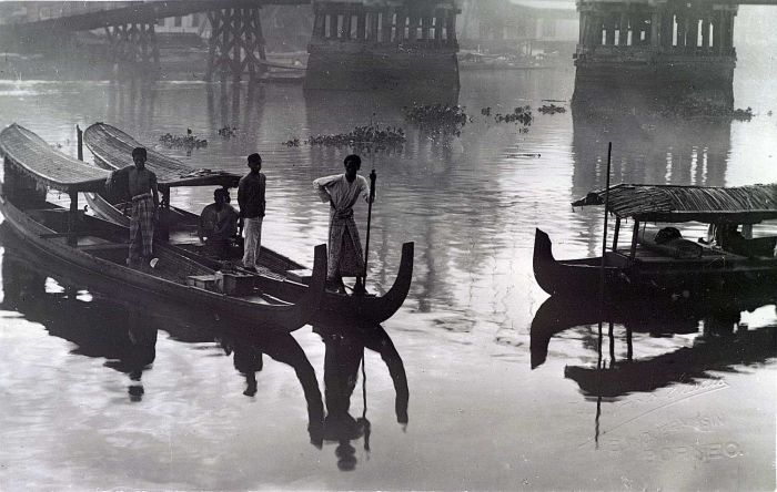 Proas at the Martapura-river